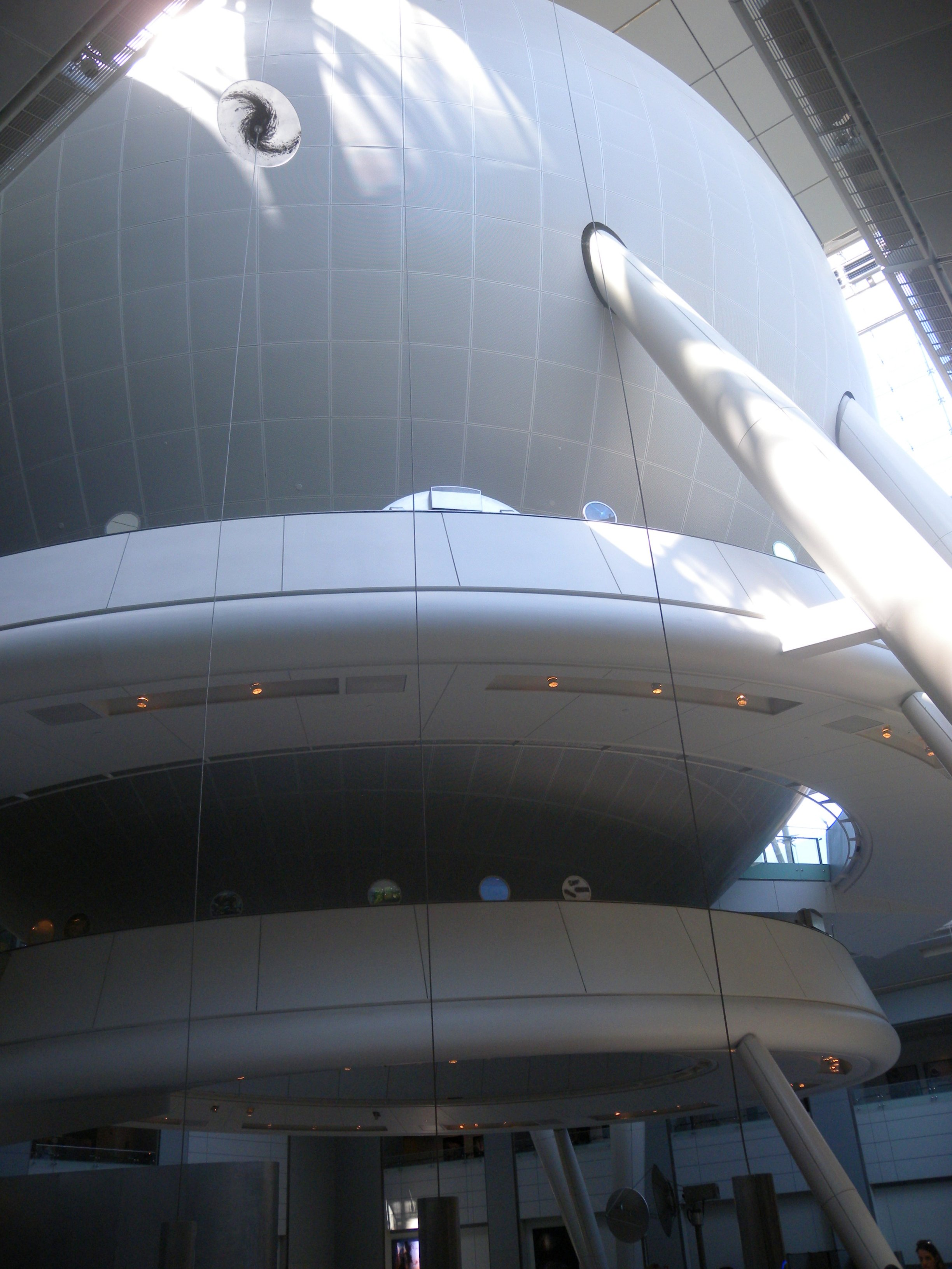 Looking west at structure from bottom lobby.